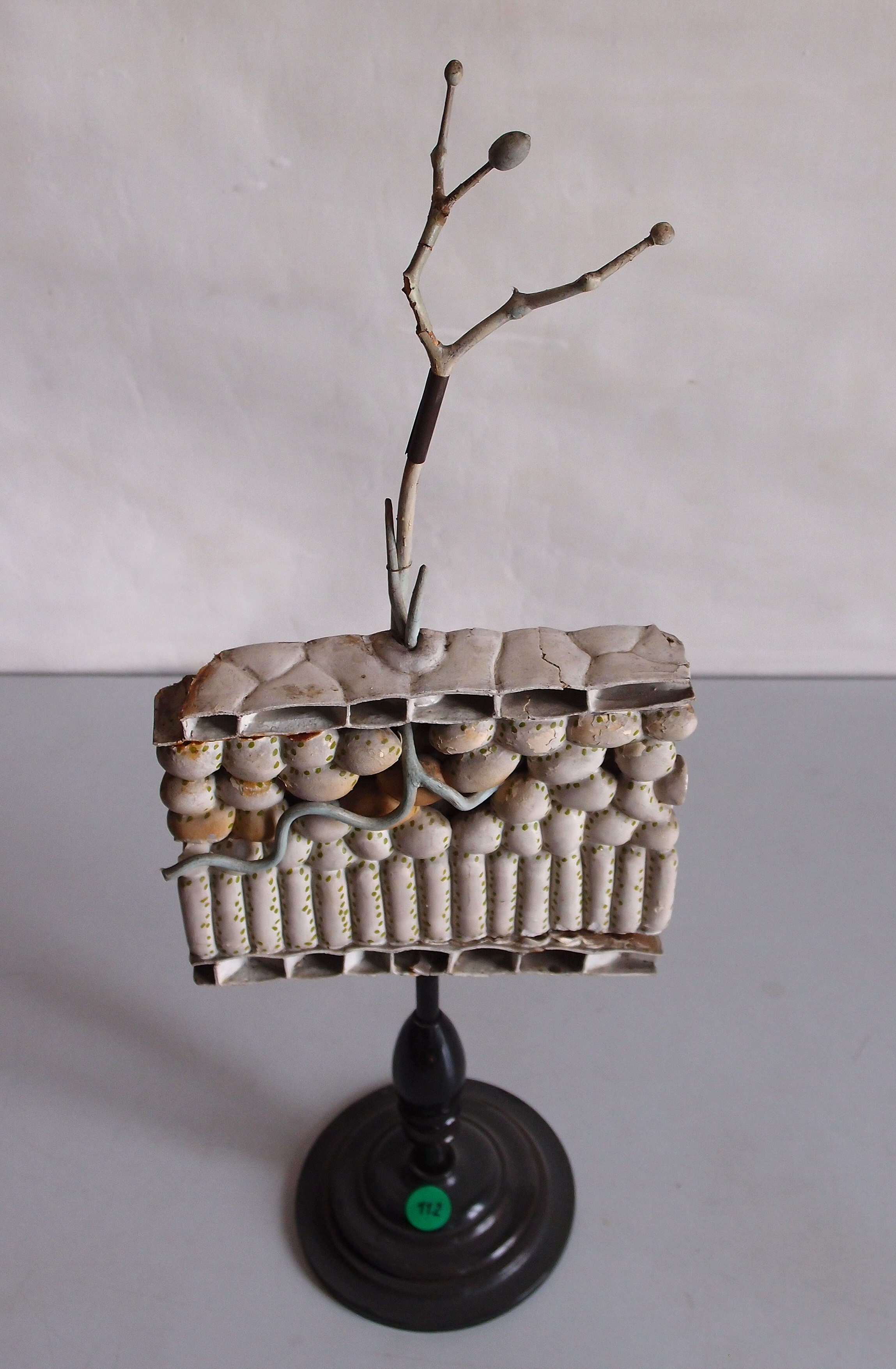 Model from the collection of the Botanical Museum in Greifswald, Germany. . see also for more information on the models